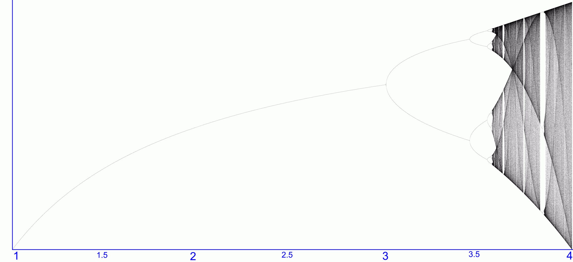 Bifurcation diagram for population equation x n + 1 = r x n ( 1 − x n ) {\displaystyle x_{n+1}=rx_{n}(1-x_{n})\,} . The horizontal axis represents the r factor (from 1 to 4) - control parameter, and the vertical axis represents the x variable (0 to 1) - population (as a percentage) for each n between 2000 and 2500.